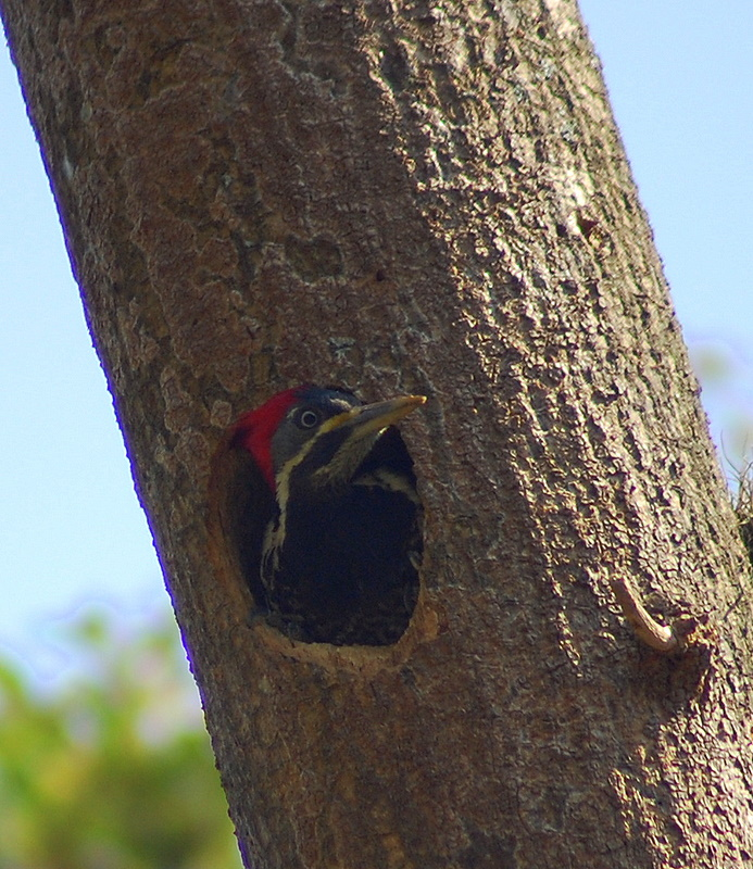 A Lineated Woodpecker (Dryocopus lineatus)